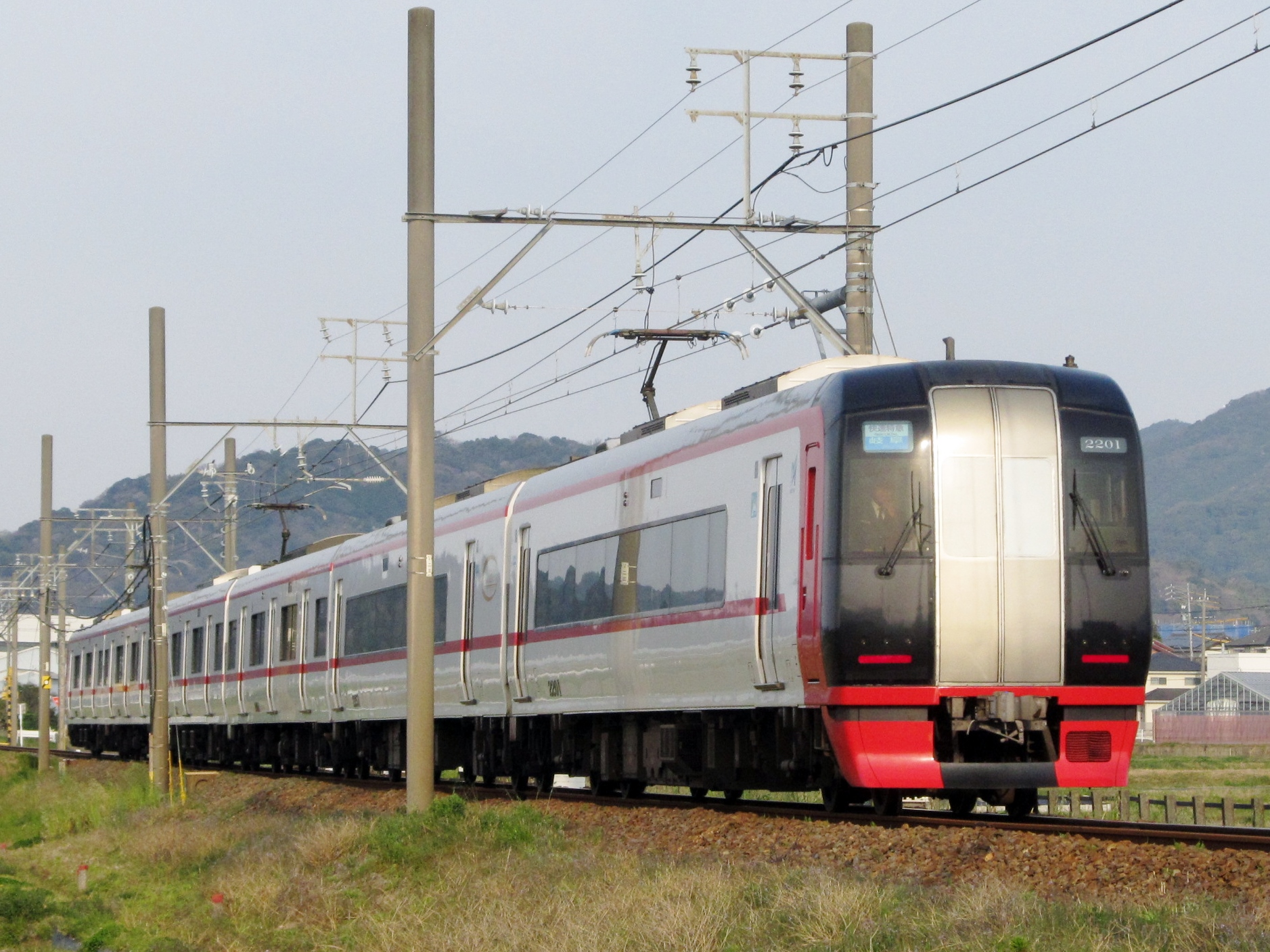 Meitetsu 2200 series. Rapid Limited Express bound for Meitetsu Gifu.